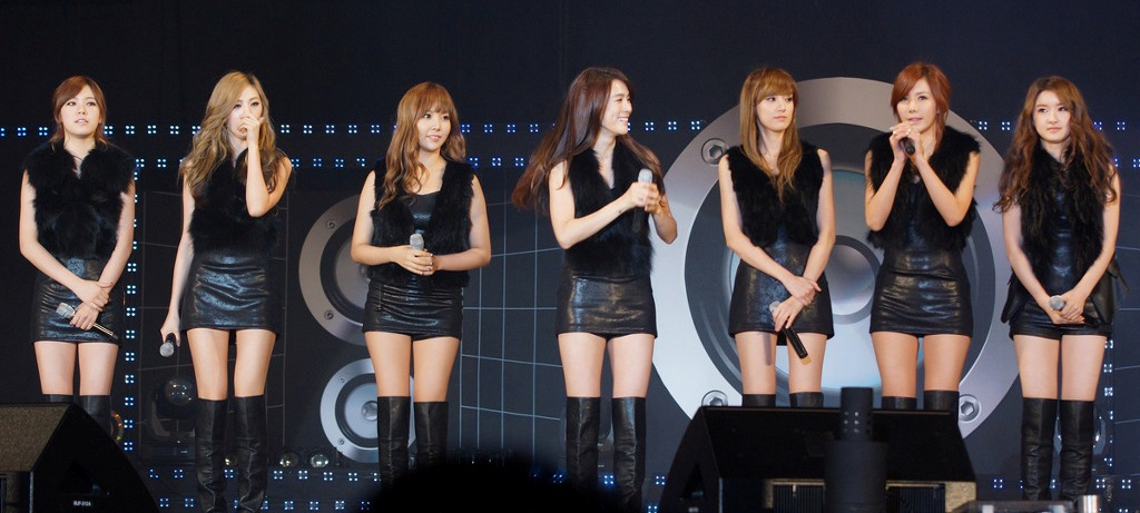 After School at a concert in 2011. From left to right: Lizzy, Nana, Raina, Kahi, Juyeon, Jungah, E-Young.